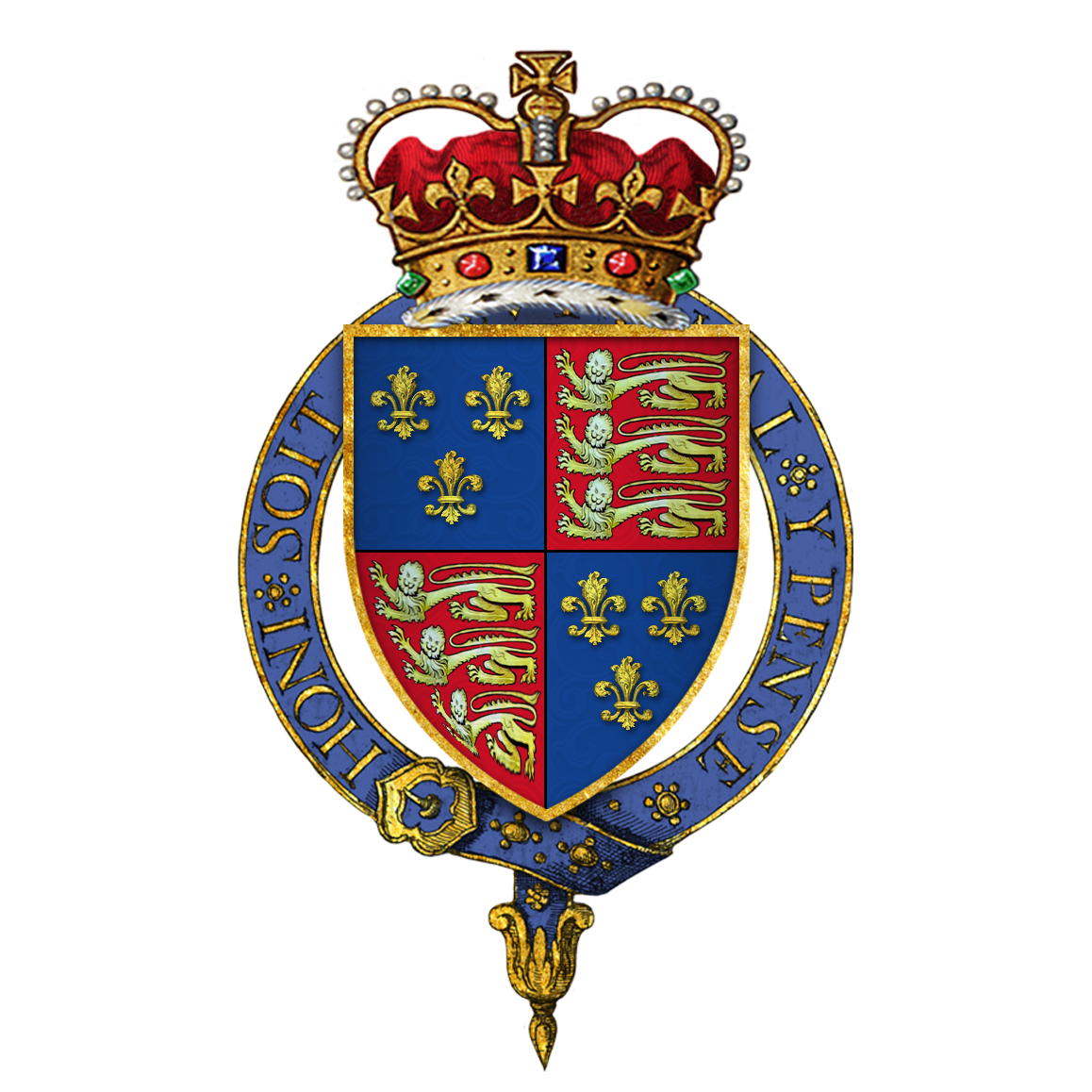 Henry V, King of England